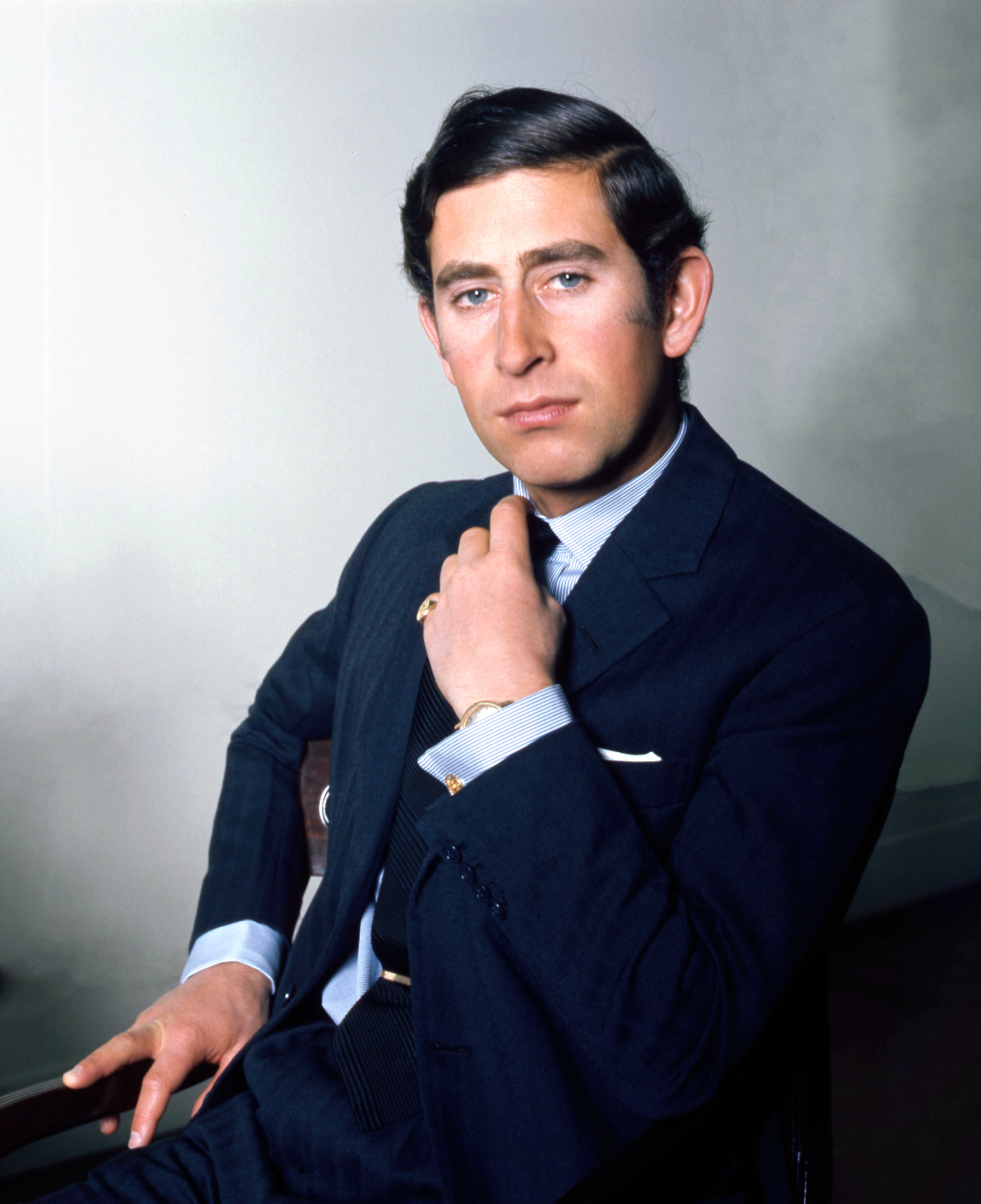 HRH The Prince of Wales taken at Buckingham Palace, London